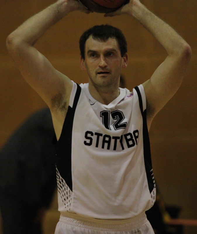 Mindaugas Budzinauskas playing for Statyba Vilnius